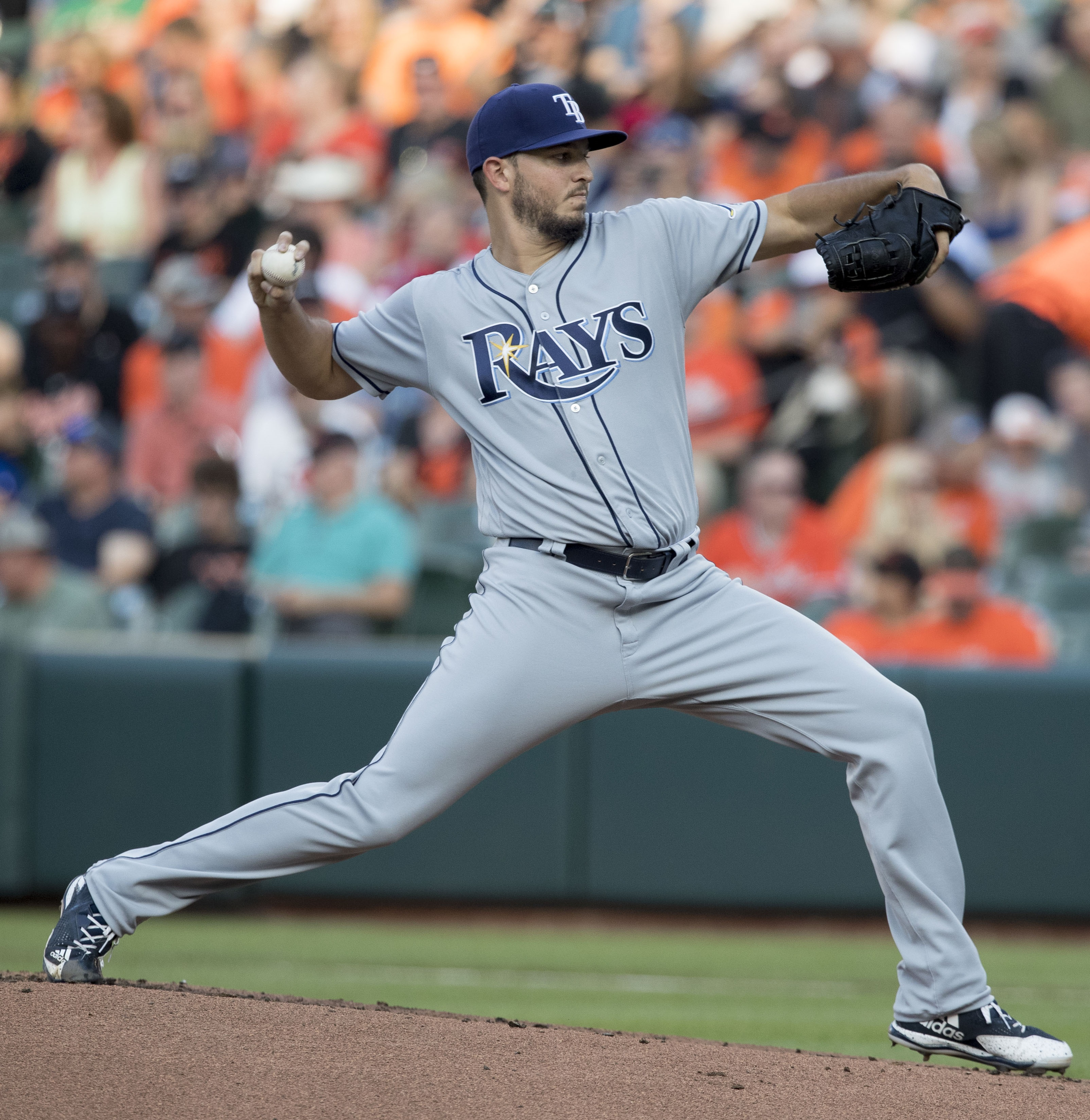 Jacob Faria of the Tampa Bay Rays pitches in a game against the Baltimore Orioles at Oriole Park at Camden Yards on June 30, 2017 in Baltimore, Maryland.